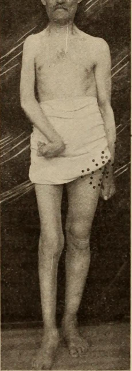 Title: Interstate medical journal Year: 1917 (1910s) Authors: Subjects: Medicine Publisher: St. Louis, : Interstate Medical Journal Text Appearing Before Image: ' Text Appearing After Image: '